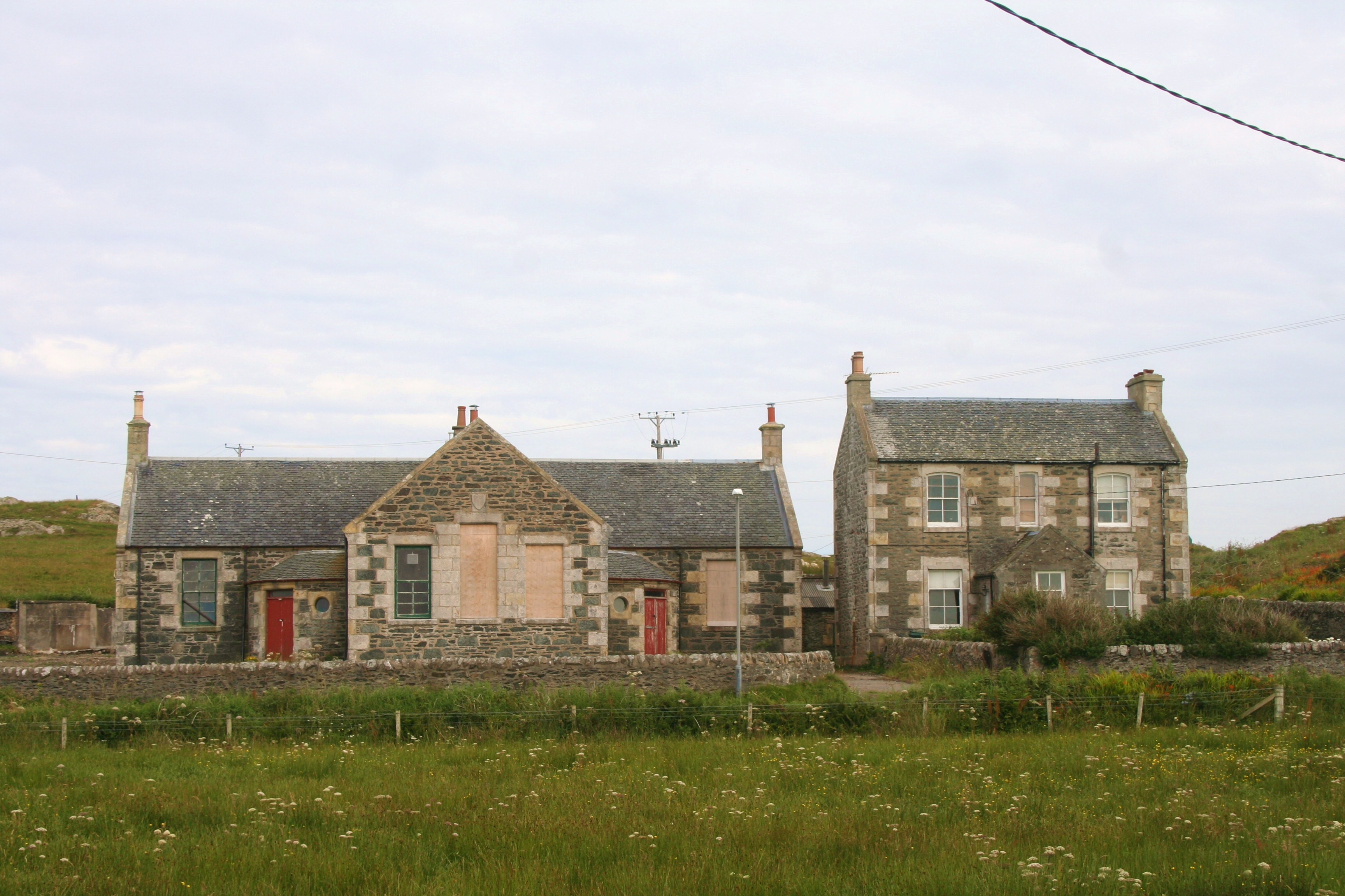 Portnahaven Primary School